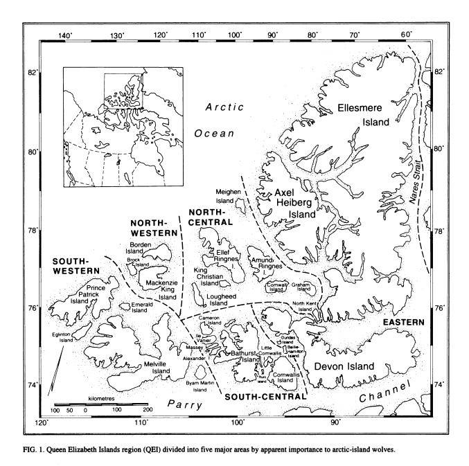 Map